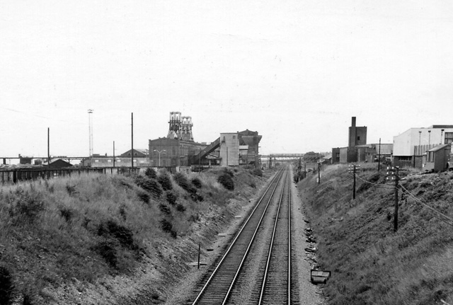 Site of Blackhall Colliery Station. View SE, towards Stockton; Northallerton/Middlesbrough - Stockton - Sunderland - Newcastle secondary main line. Station closed 4/5/64. Colliery continued until 1981